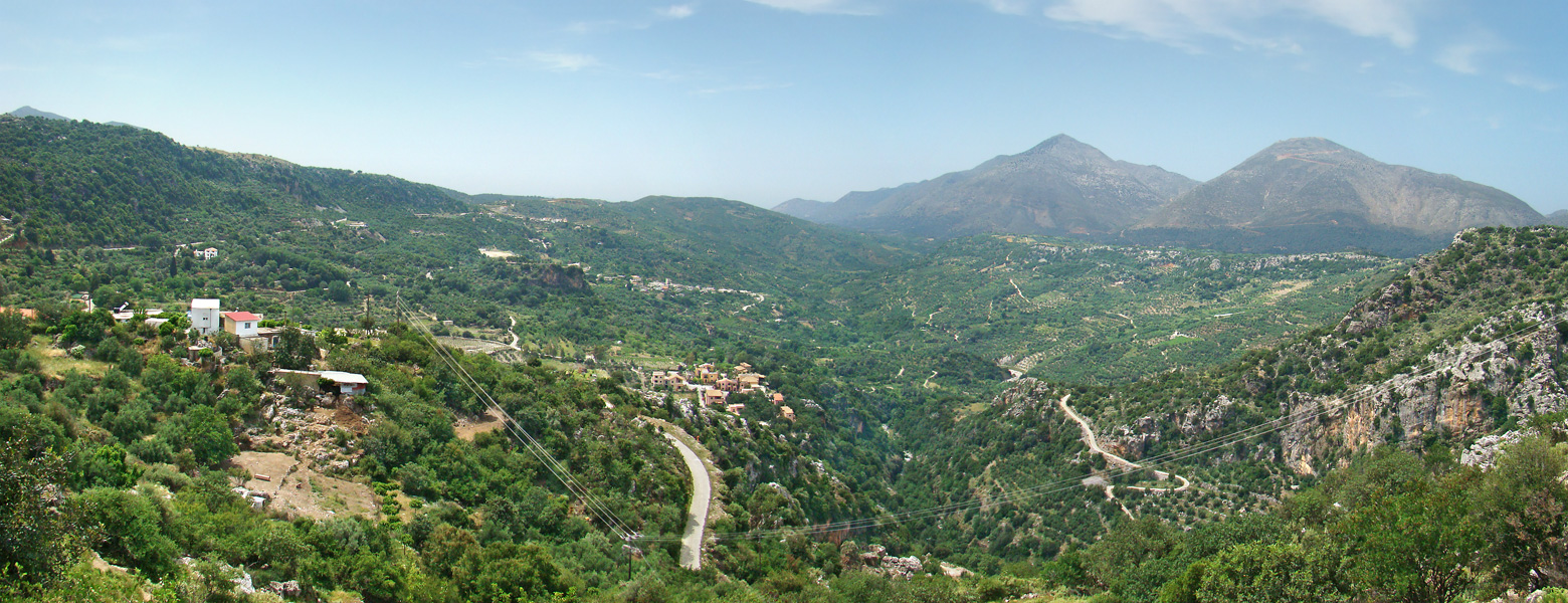 Around Axos, Crete, Greece.